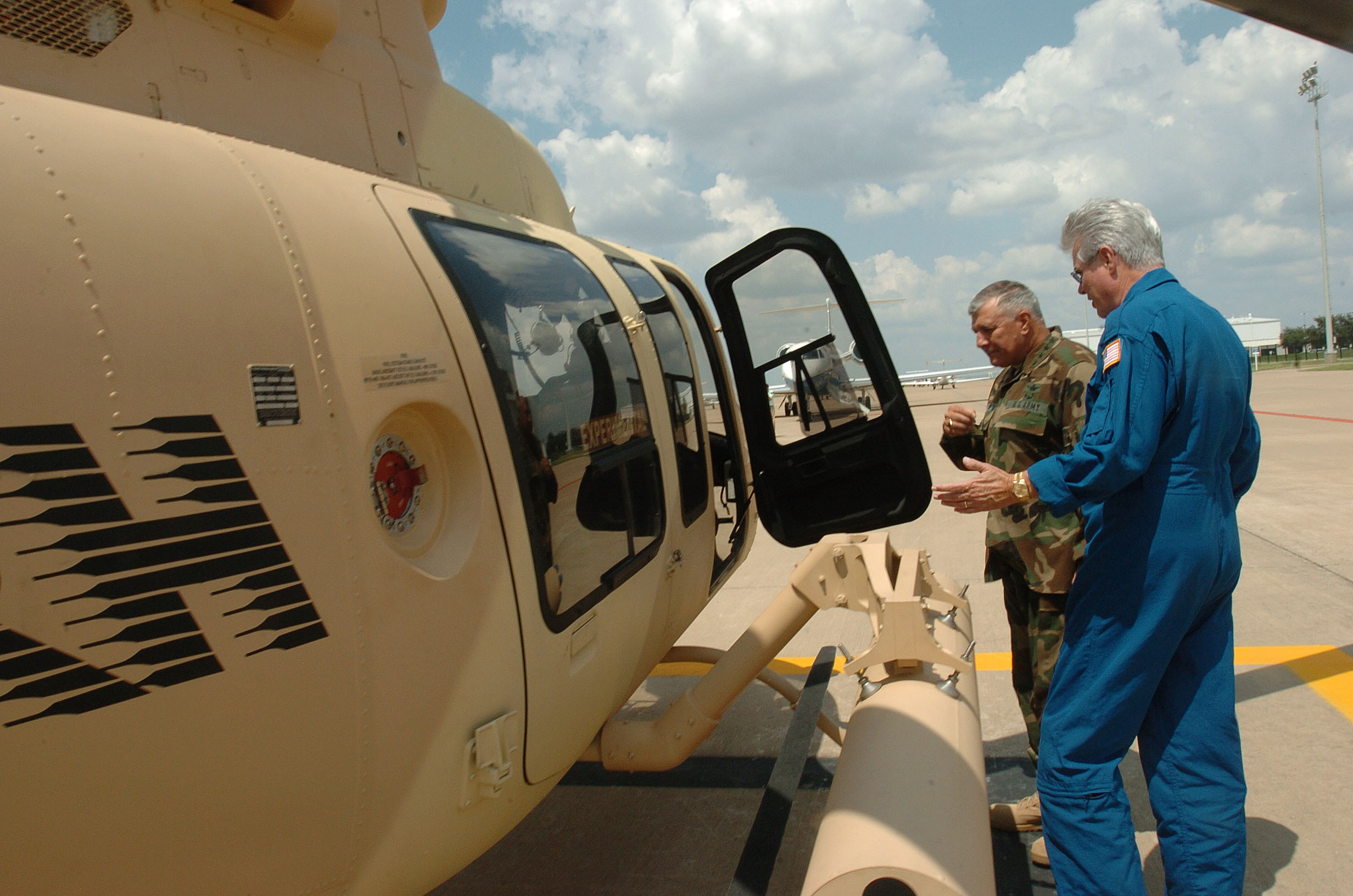 Before taking a test flight at Bell Helicopter Monday, Army Vice Chief of Staff Gen. Richard Cody checks out the Armed Reconnaissance Helicopter. The ARH will be the first of three platforms fielded in the transformation of Army aviation.